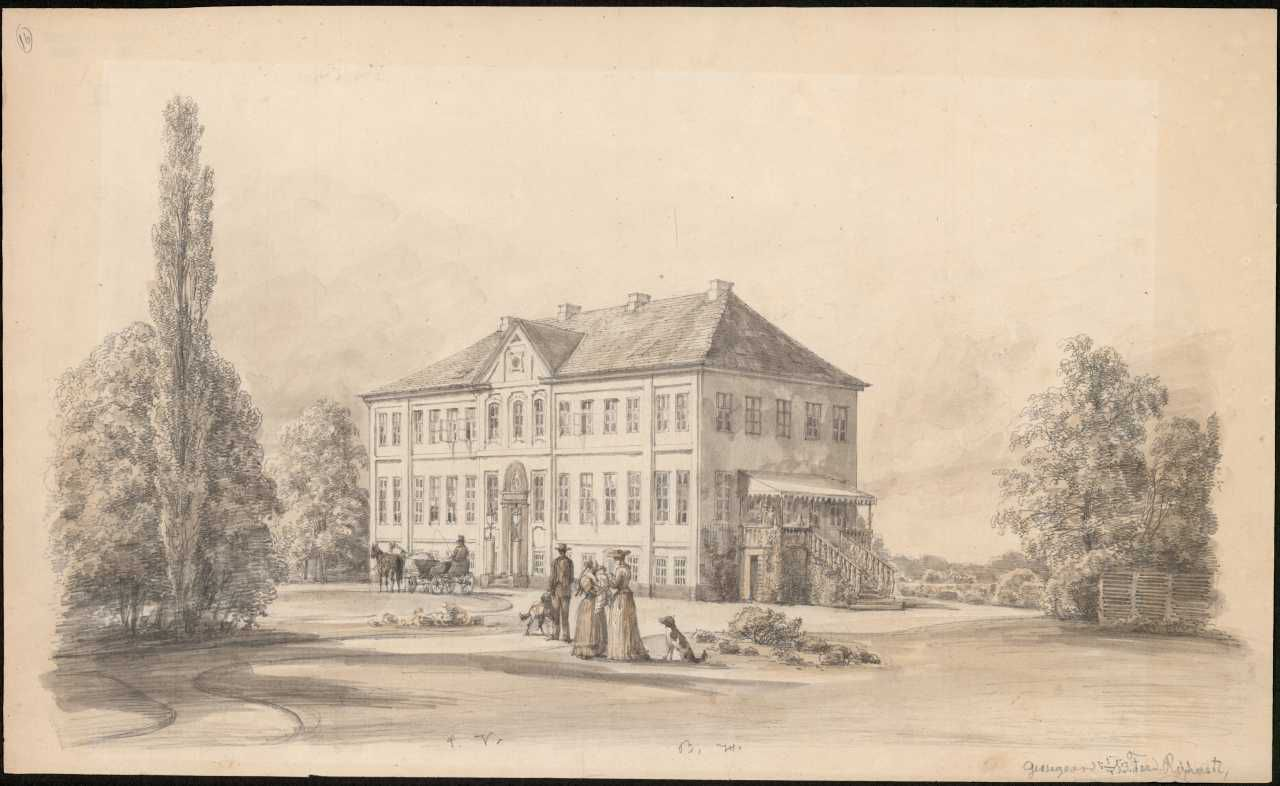 Giesegaard prior to the 1763 alterations.